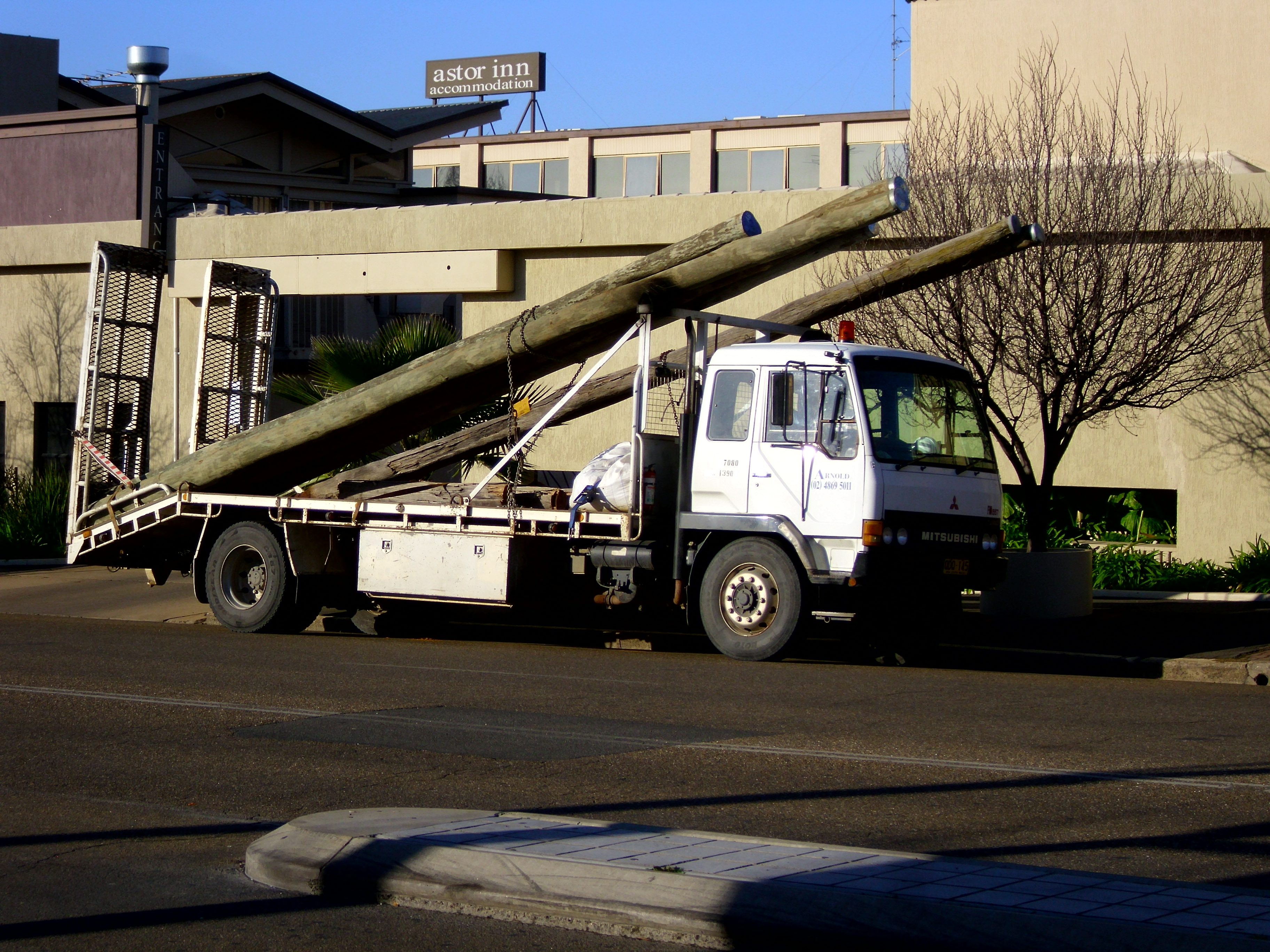 Mitsubishi Fuso FM557 carrying utility poles.